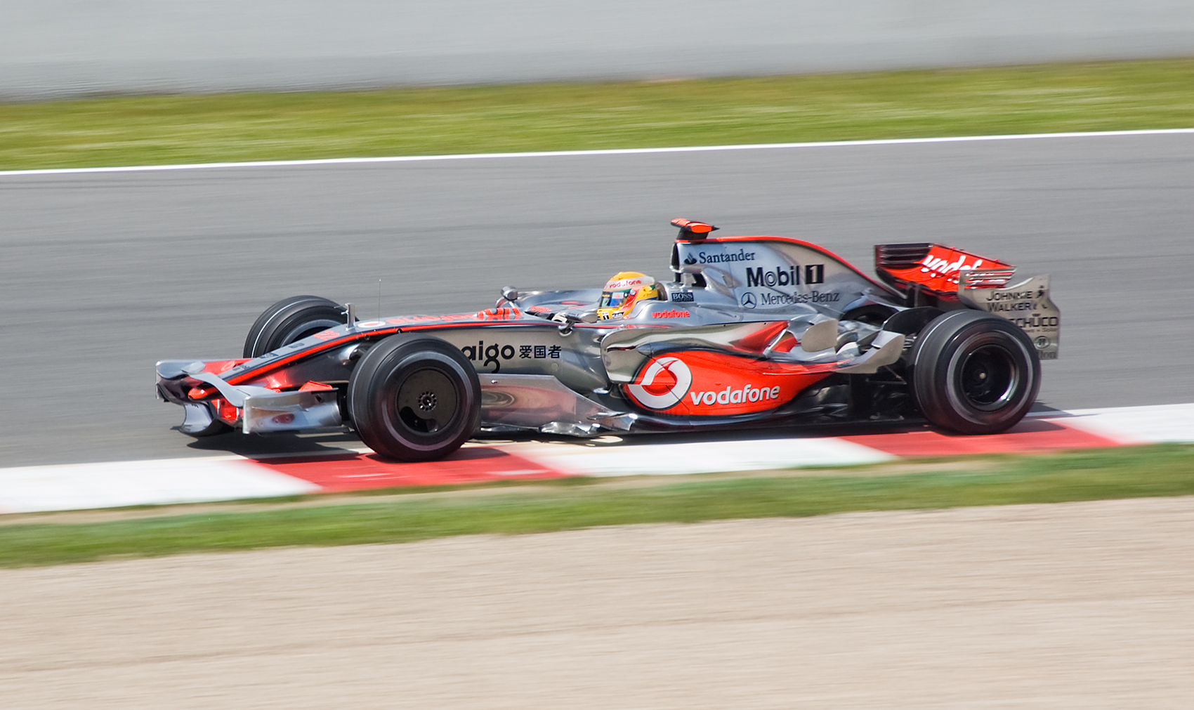 Lewis Hamilton driving for McLaren at the 2008 Spanish Grand Prix. You can contribute by translating this description into more languages.